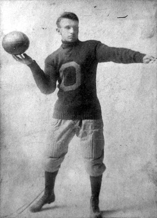 Glen Gray before the 1907 football season at Oberlin College.